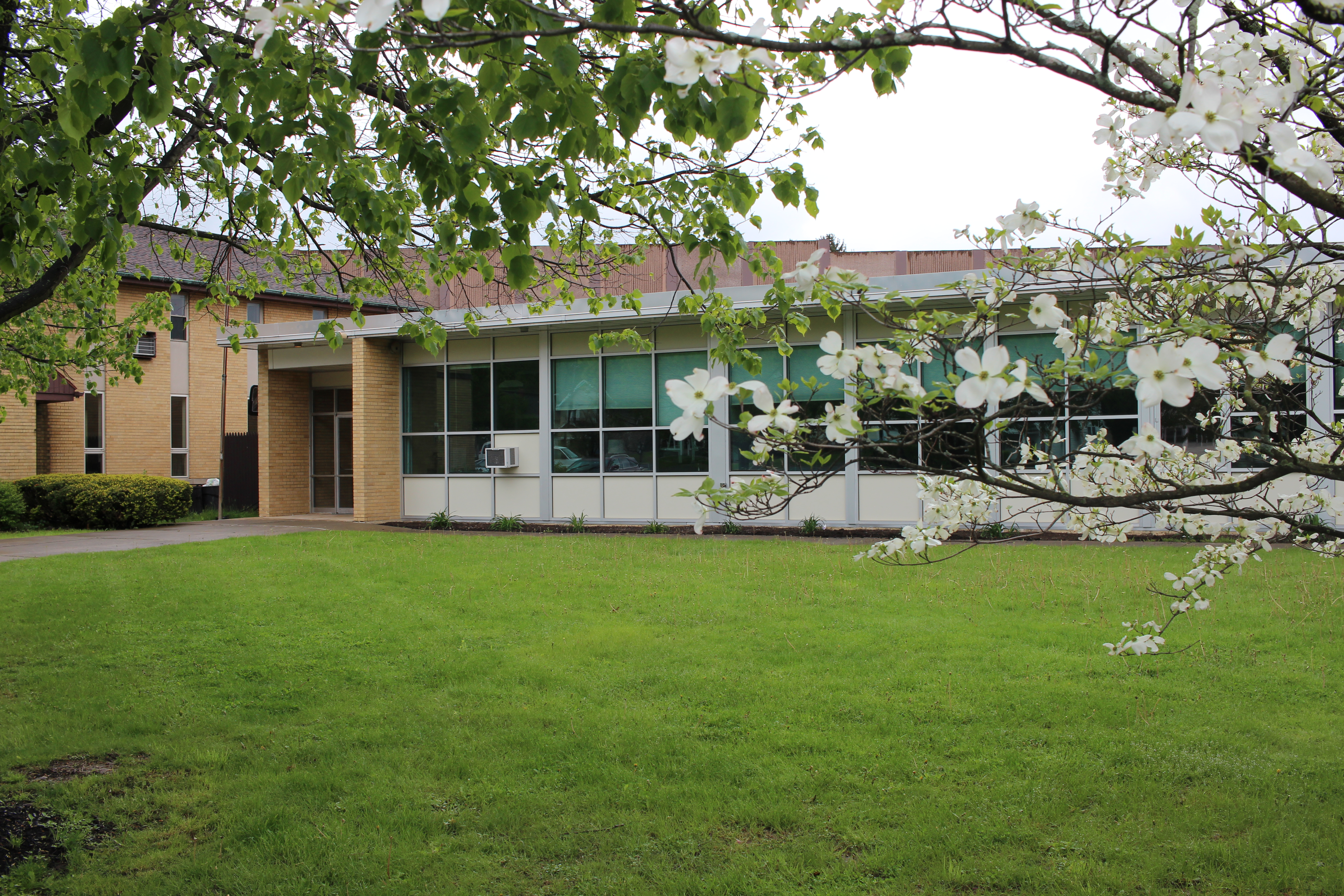 1 Chrisfield Avenue Office